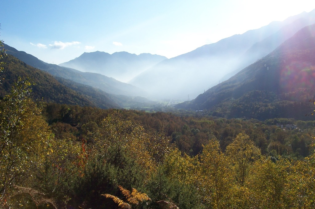 St. Mary of Pradella, Sonico, Val Camonica